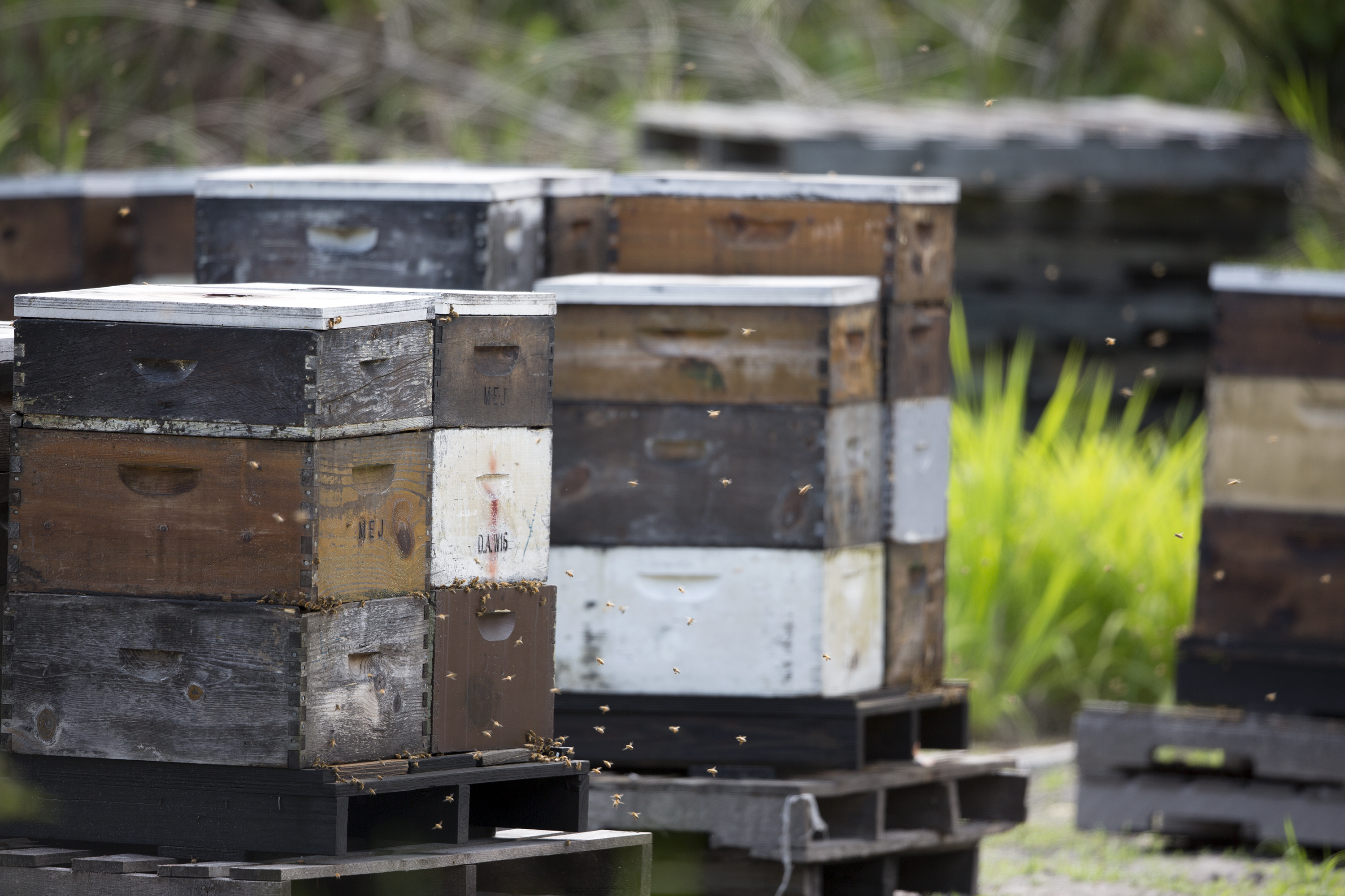 Bees swarm around hives at NASA's Kennedy Space Center in Florida. Kennedy shares a boundary with the Merritt Island National Wildlife Refuge. The Refuge encompasses 140,000 acres that are a habitat for more than 331 species of birds, 31 mammals, 117 fishes, and 65 amphibians and reptiles. The marshes and open water of the refuge provide wintering areas for 23 species of migratory waterfowl, as well as a year-round home for great blue herons, great egrets, wood storks, cormorants, brown pelicans and other species of marsh and shore birds, as well as a variety of insects.